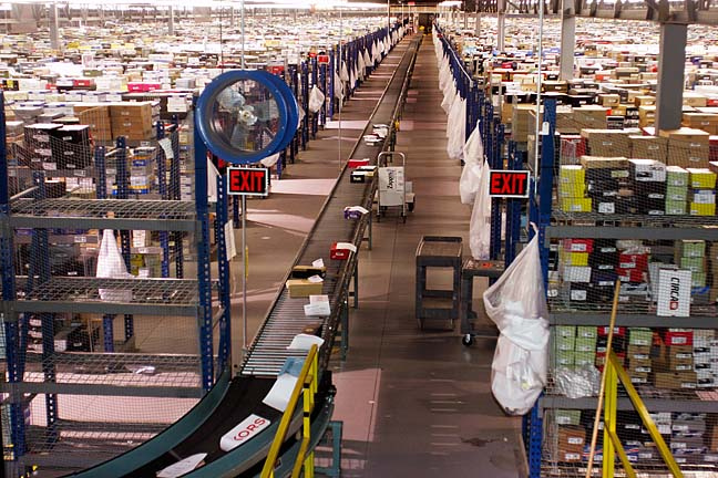 This is a picture of the Amazon fulfillment center in Kentucky.